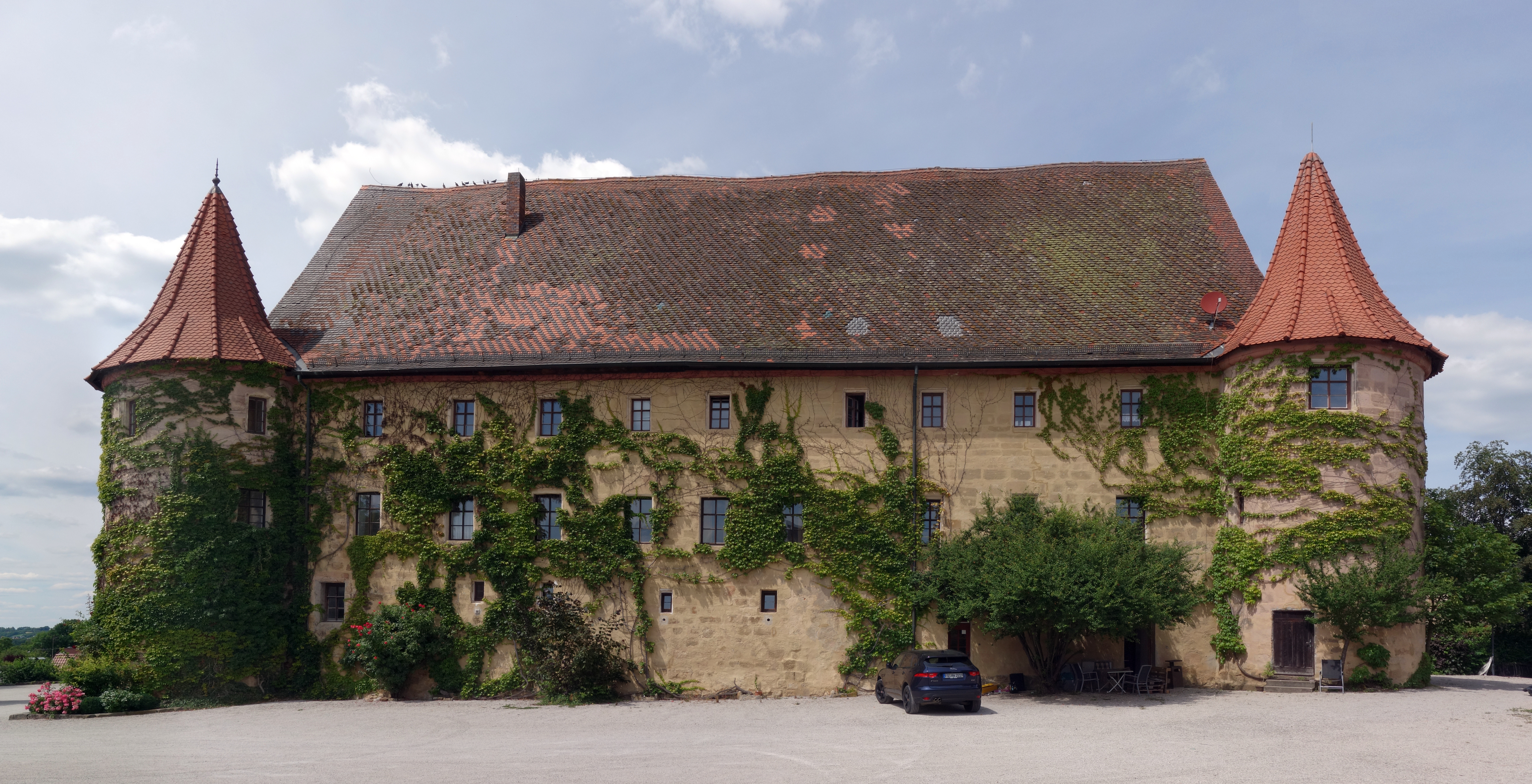 The southern side of Schloss Wiesenthau, a country house in Wiesenthau, northern Bavaria.